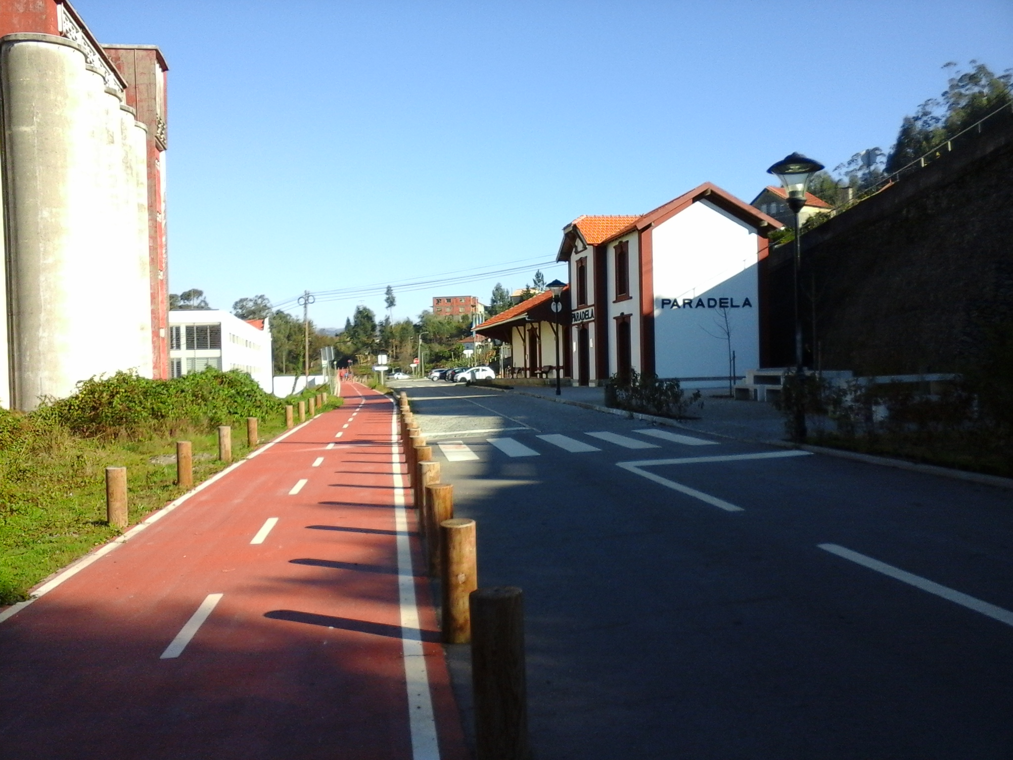 Paradela-Sever